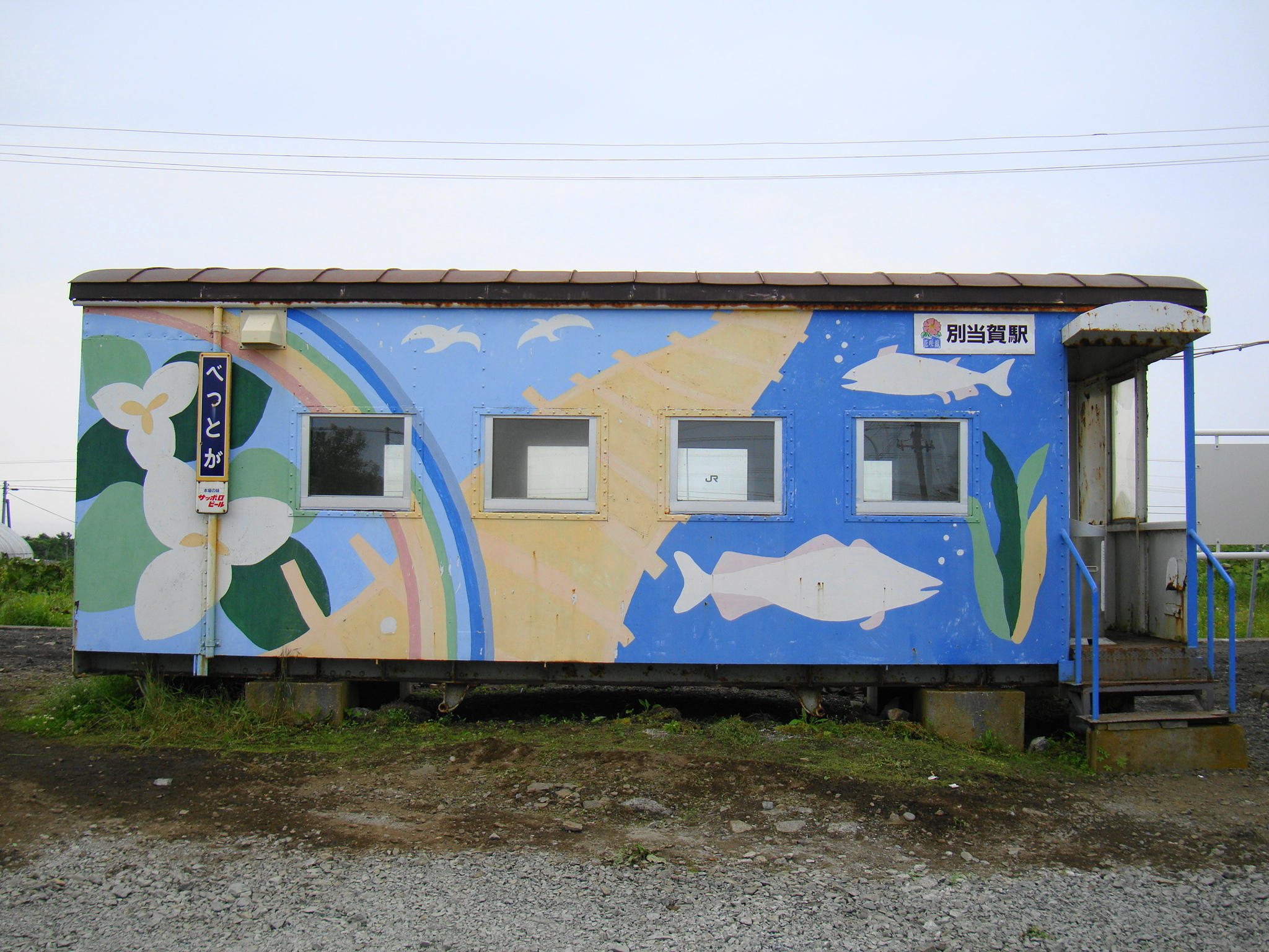 Bettoga Station